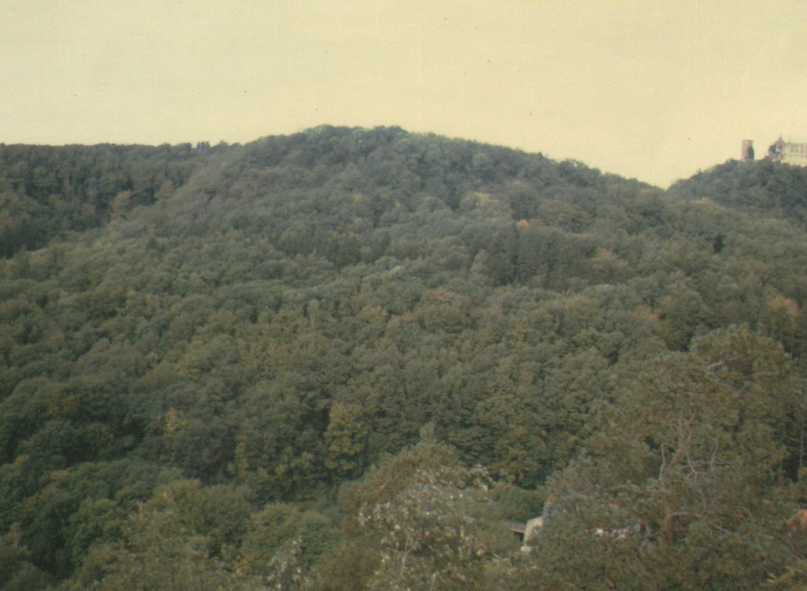 The castle Eisenacher Burg in Eisenach.